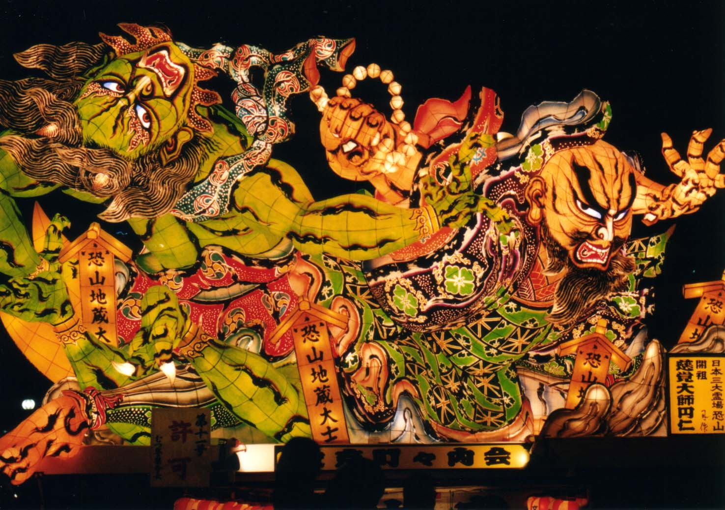 Nebuta at Ohminato Town, 2003 August